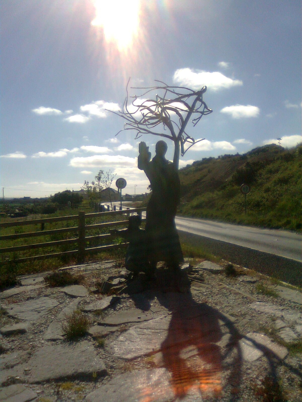 Bangor Erris, County Mayo Summer 2010